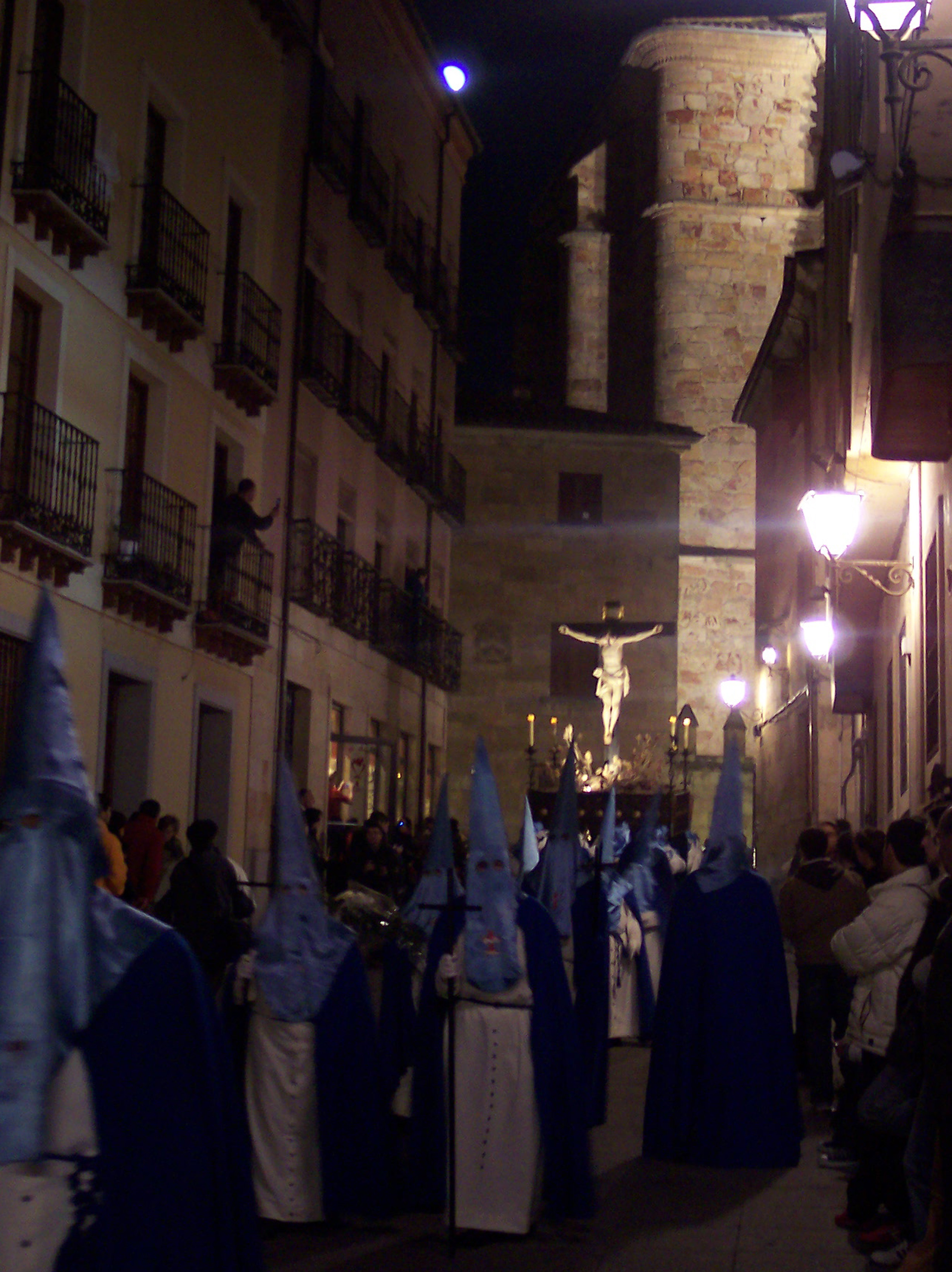 Procession of the Christ of the "Doctrinos", in Salamanca (Spain)